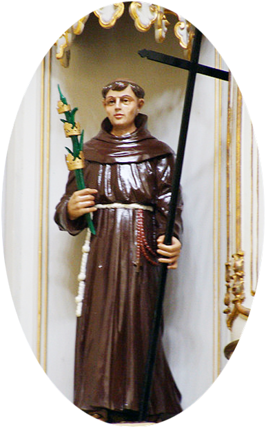 A statue of St. Gonsalo Garcia, who was born in Bassein (Vasai), a historical village north of Mumbai in Maharashtra, India, that is now part of the Vasai-Virar city. Garcia was the first Roman Catholic saint of India and of the Indian sub-Continent.